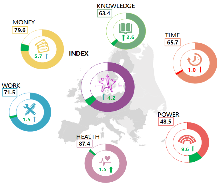 Scores of the Gender Equality Index and its domains at EU-level in 2015, along with the changes in scores from 2005.